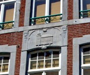 National monument no. 27292 - Maastrichter Brugstraat 8, Maastricht, The Netherlands